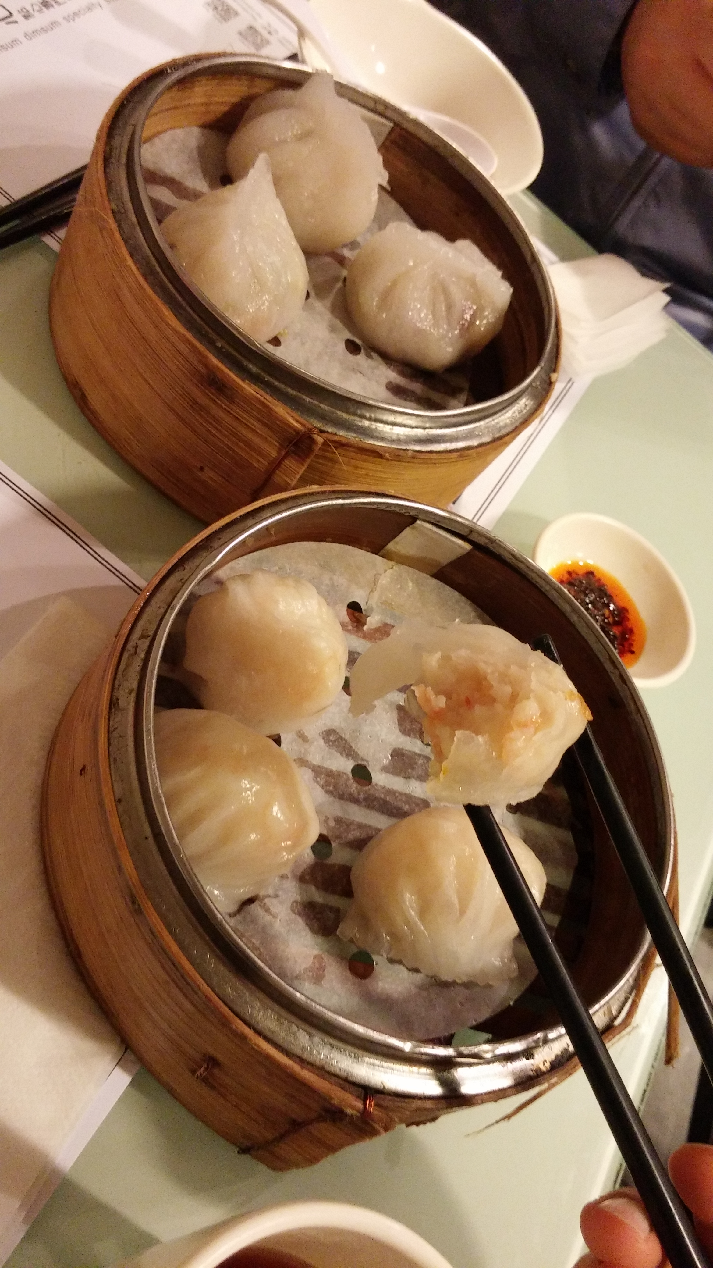 Dimsum